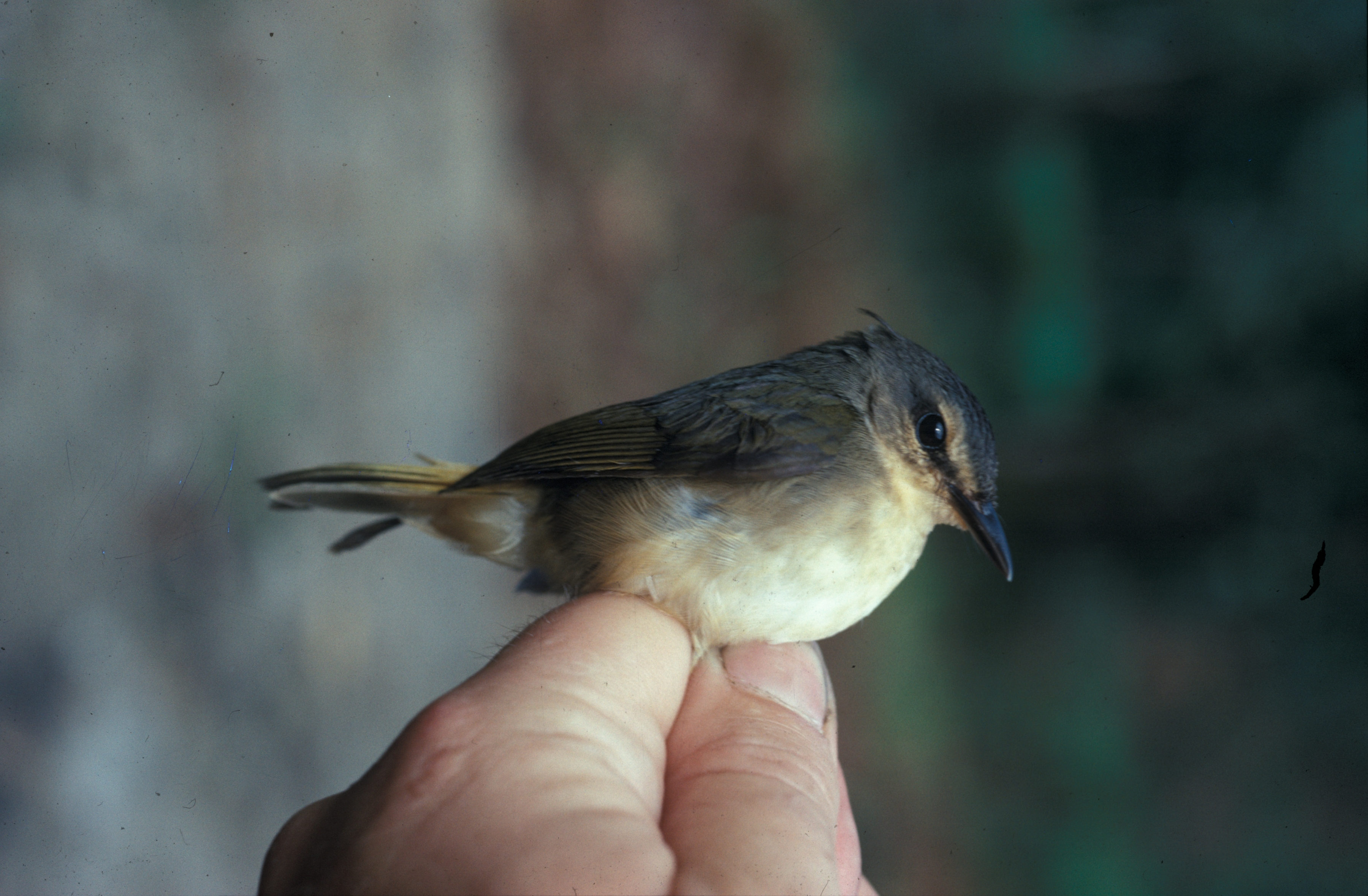 Buff-rumped Warbler Phaeothlypis fulvicauda (syn. Basileuterus fulvicauda) from the NBII Image Gallery. Photographed in Equador.